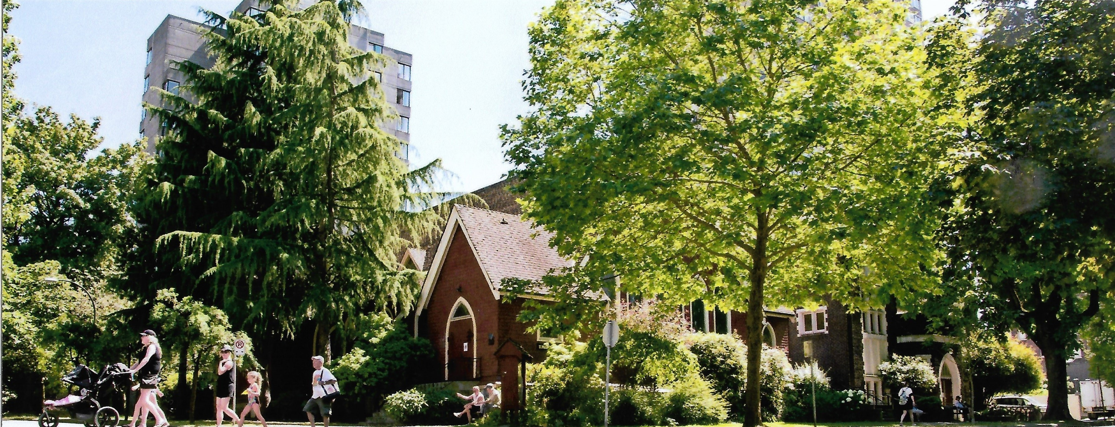 St Paul's Anglican Church, 1130 Jervis Street, Vancouver, Canada V6E 2C7, with ancillary buildings